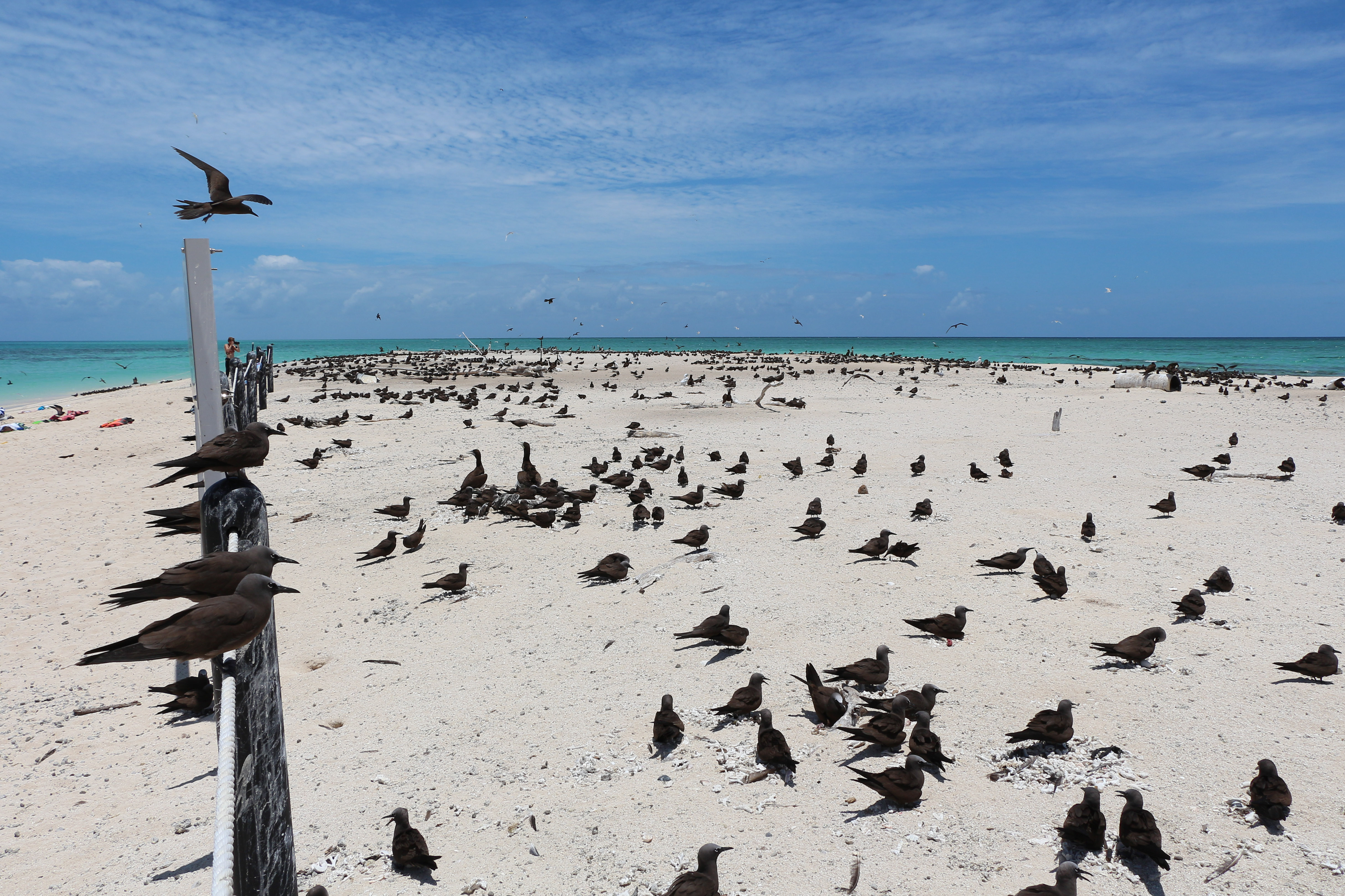 Brown noddies (Anous stolidus) on Michaelmas Cay, Queensland, Australia